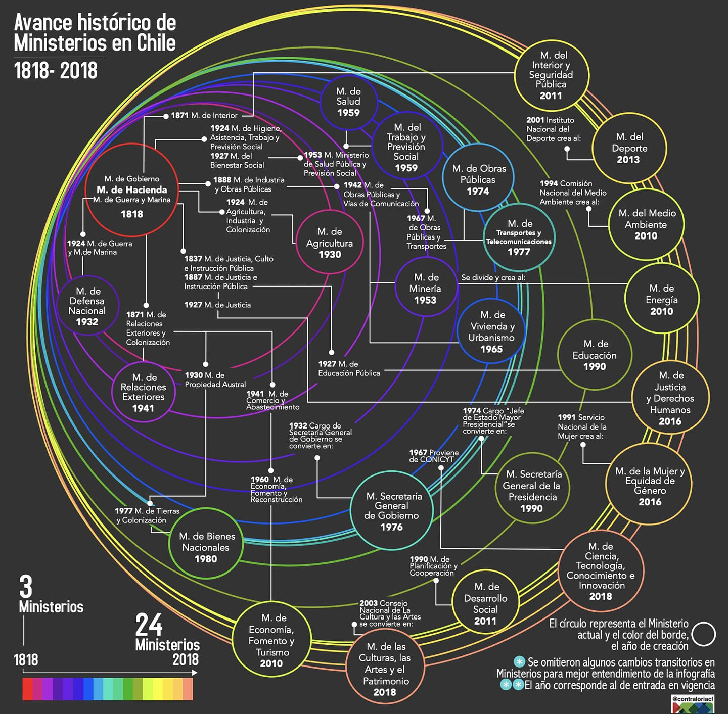 Evolution of the ministries of state of Chile